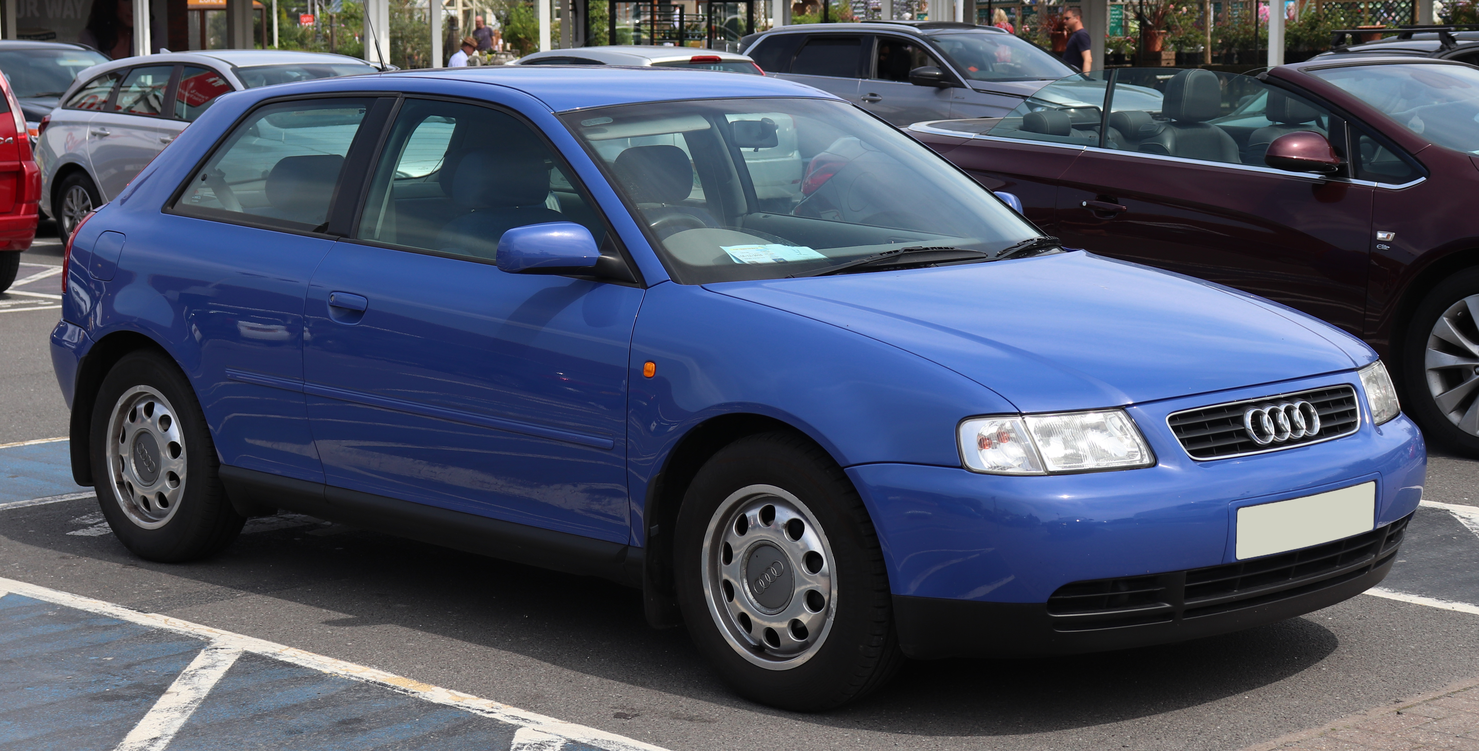 1998 Audi A3 Automatic 1.6 Front Taken in Solihull